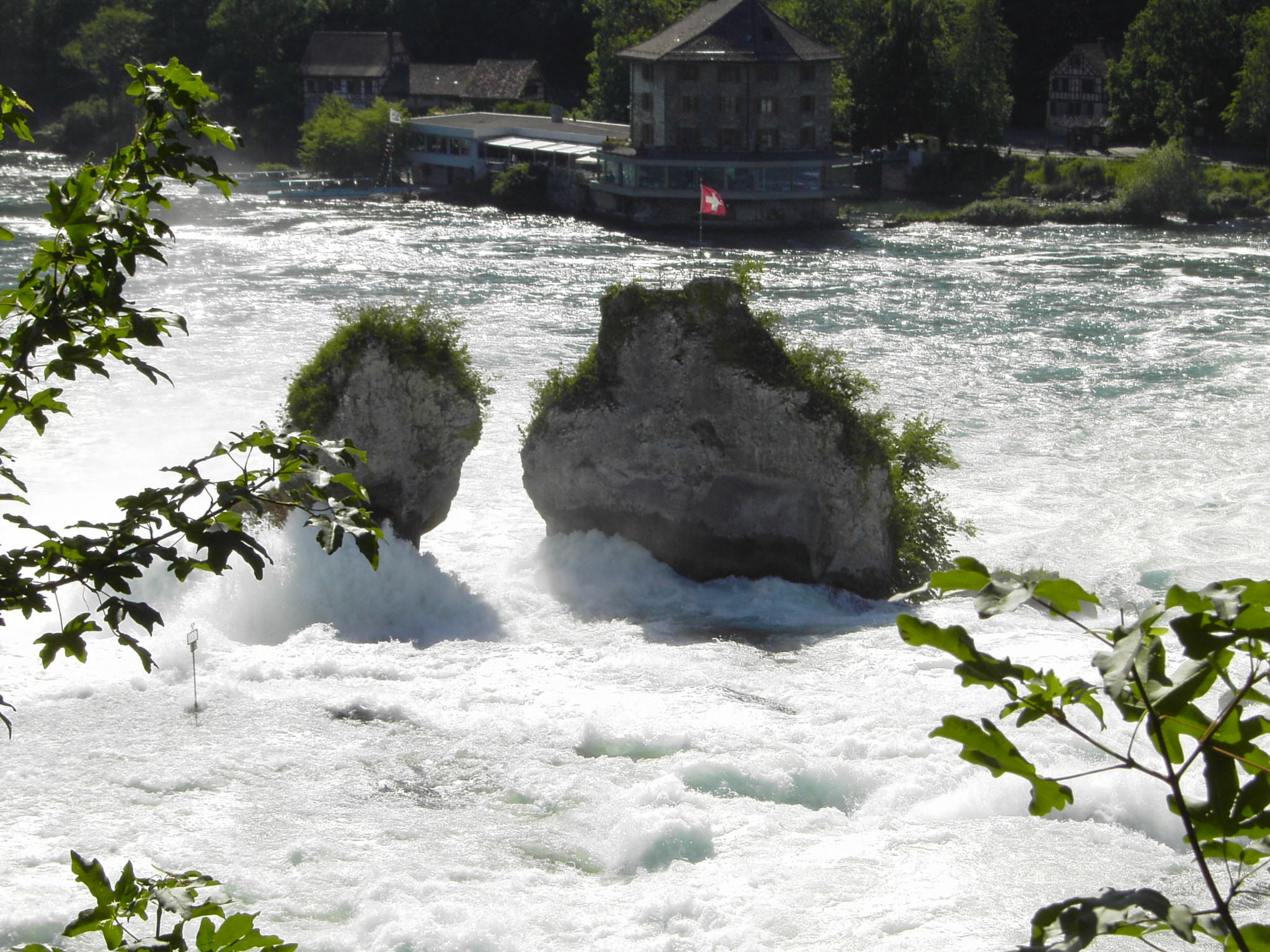 The Rhine Falls near Schaffhausen